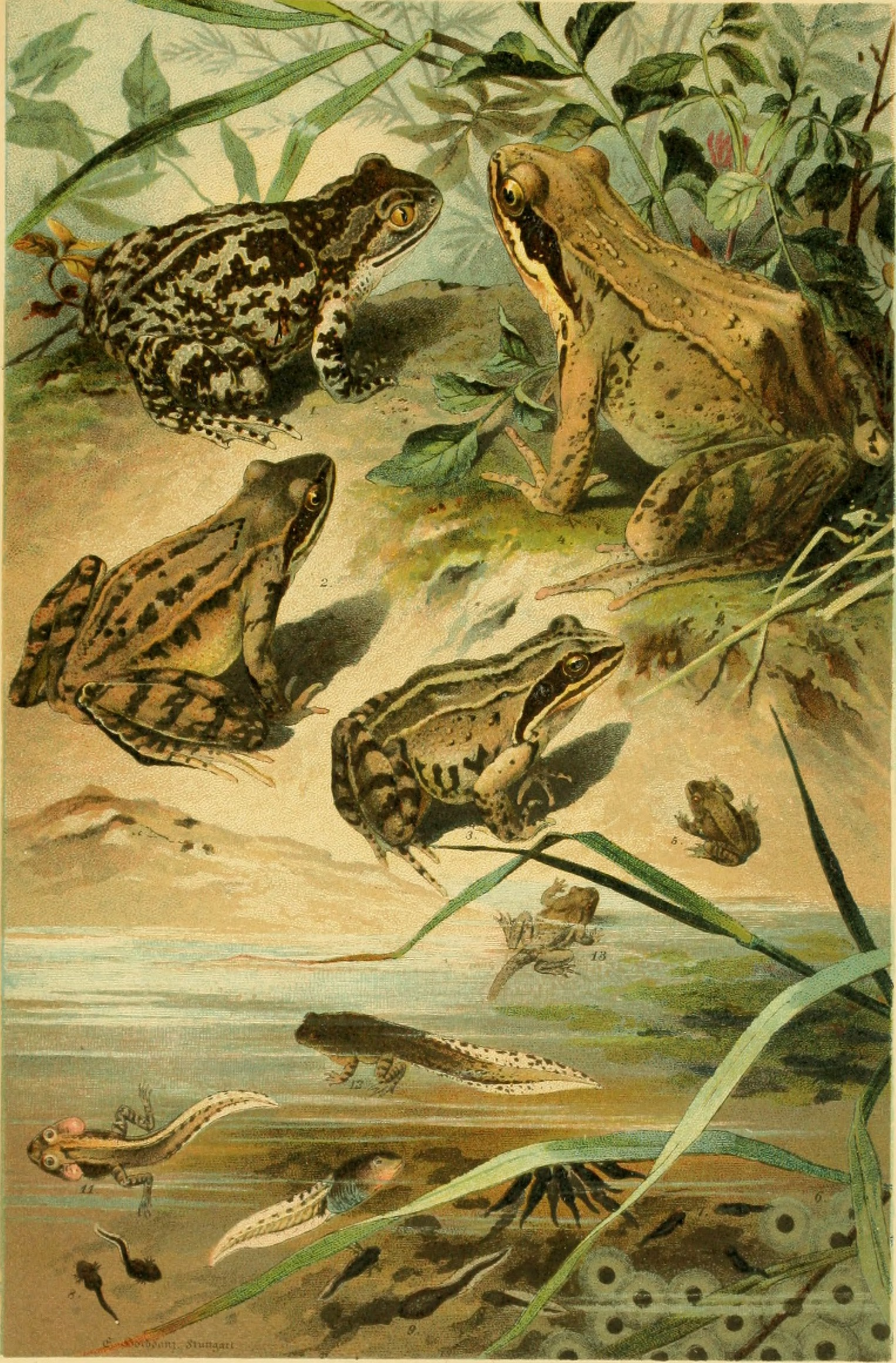 Title: Deutschlands Amphibien und Reptilien. Eine Beschreibung und Schilderung sämmtlicher in Deutschland und den angrenzenden Gebietan vrokommenden Lurche und Kreichthiere Year: 1897 (1890s) Authors: Dürigen, Bruno, 1853- Subjects: Amphibians; Reptiles Publisher: Magdeburg, Creutz'sche Verlagsbuchhandlung Text Appearing Before Image: Taf. III. Text Appearing After Image: i. Knolilaucliskröte (Peloliatcs fiiscuM. .-. .^j)! in^^n usrli (Kann ai^iiisi. ^v iVlonr- IVosch (f^ana arvalis). 4. (liastVosrh (Rana muta). 5. Junt;ei- ('irasfrosch. (1—1,V l.aich und Kntw icklunifsstufeii des (Irasfrosches.